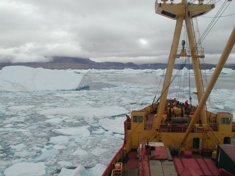 The following is the author's description of the photograph quoted directly from the photograph's Flickr page. "Brandy Bay, Antarctica, Chile "